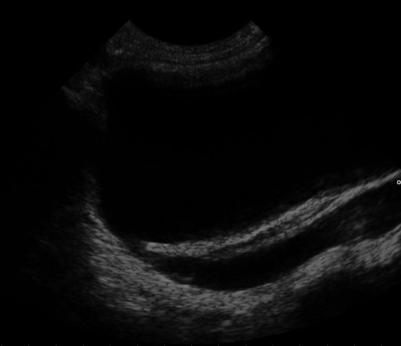 Medical ultrasound image showing abnormal vesicoureteral junction and dilated distal ureter resulting in primary vesicoureteral reflux (VUR). Insufficient submucosal length of the ureter relative to its diameter causes inadequacy of the valvular mechanism which prevents reflux. In healthy individuals the ureters enter the urinary bladder obliquely and run submucosally for some distance. Images of resulting hydronephrosis in same case attached below. Provided as-is. Please feel free to categorise, add description, crop.